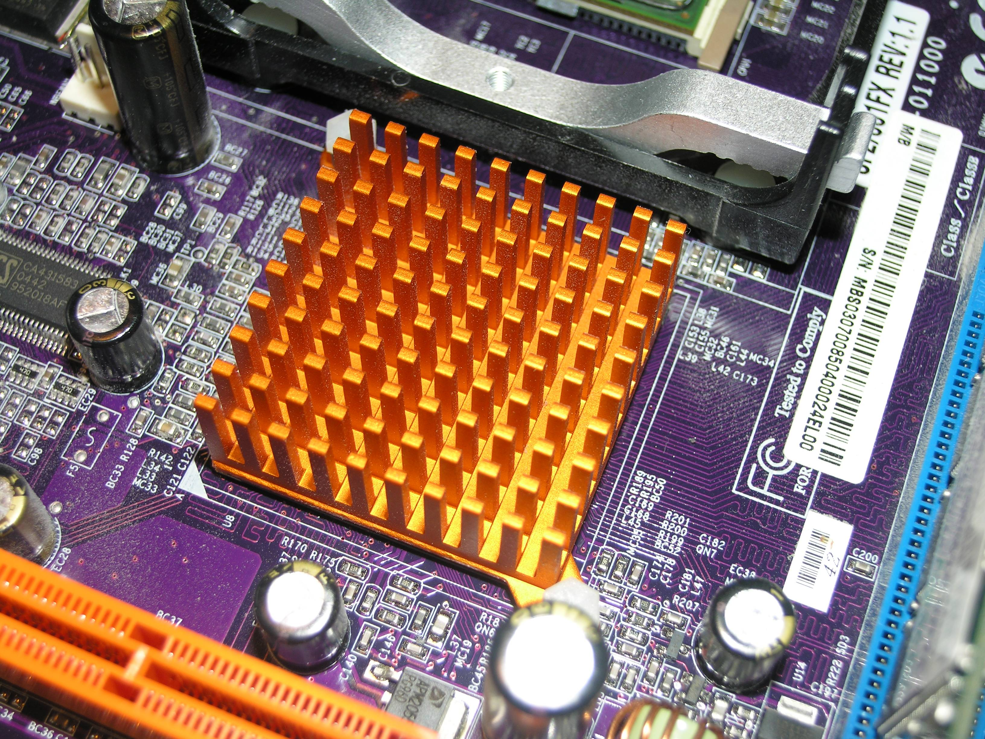 Heat sink with rods. By Audrius Meskauskas Audriusa 11:53, 22 January 2006 (UTC)